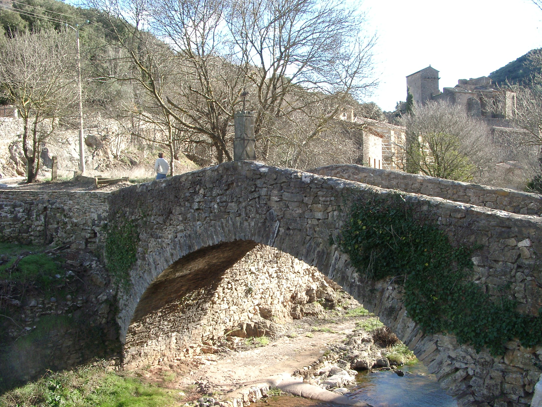 Roman Bridge and Castle in Pézènes-les-Mines